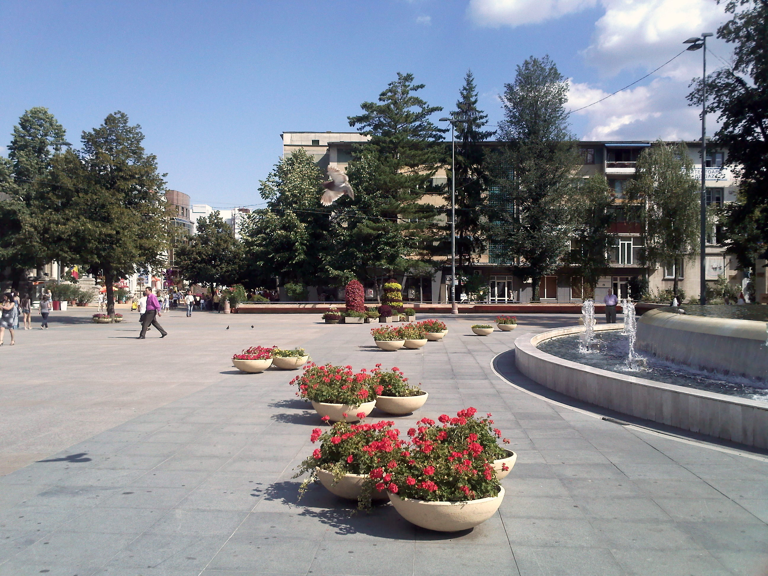 Side view of the fountain in the City Hall Plaza